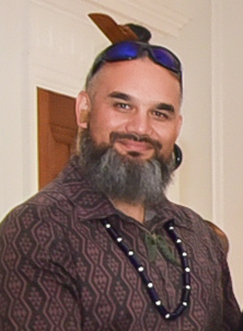 Horomona Horo at a lunch at Government House, Wellington, on 2 March 2020, for key people involved in the 2020 New Zealand Festival of the Arts.